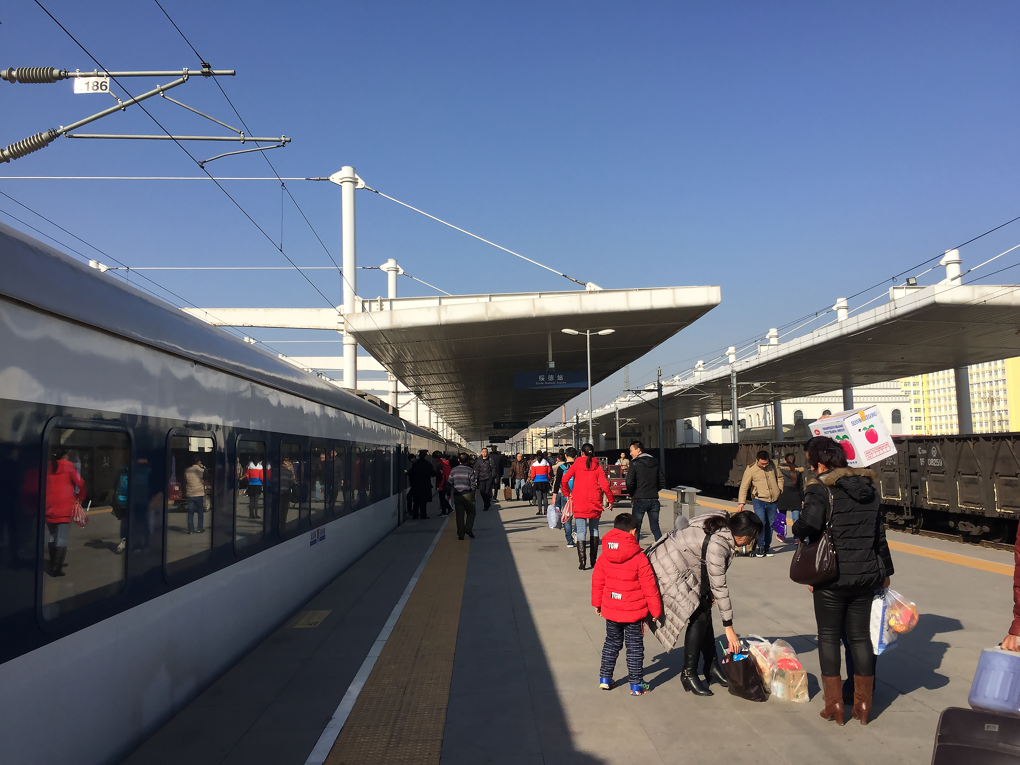 Taken during the stopover of Z70.